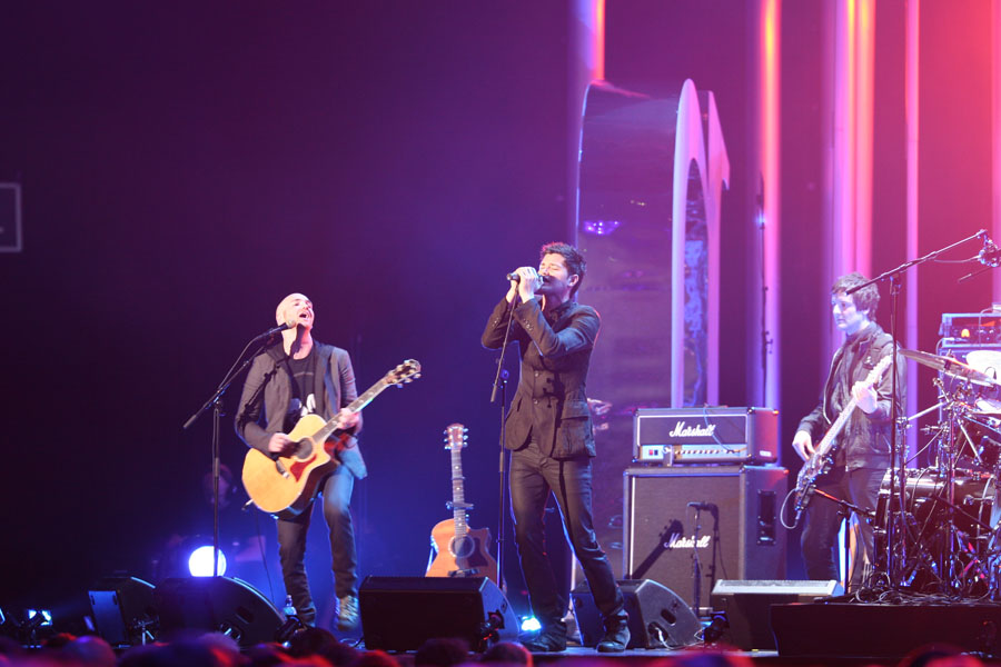 Nobel Peace Prize Concert 2008, The Script